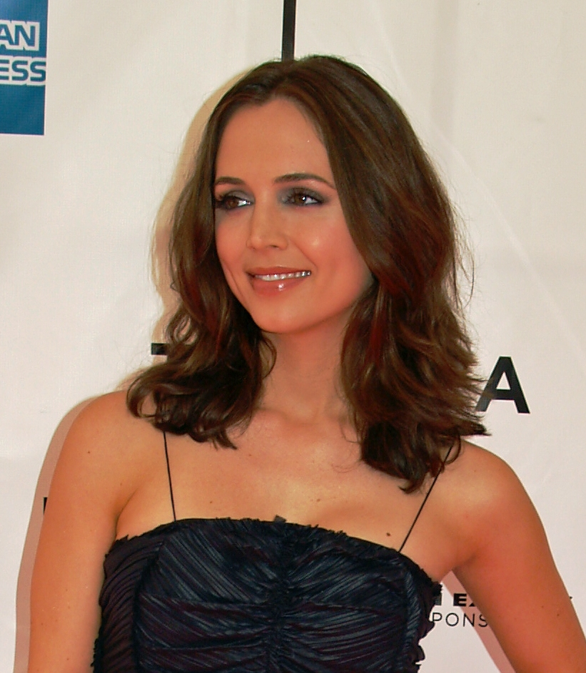 Eliza Dushku at the Tribeca Film Festival. Cropped by uploader to focus on her face